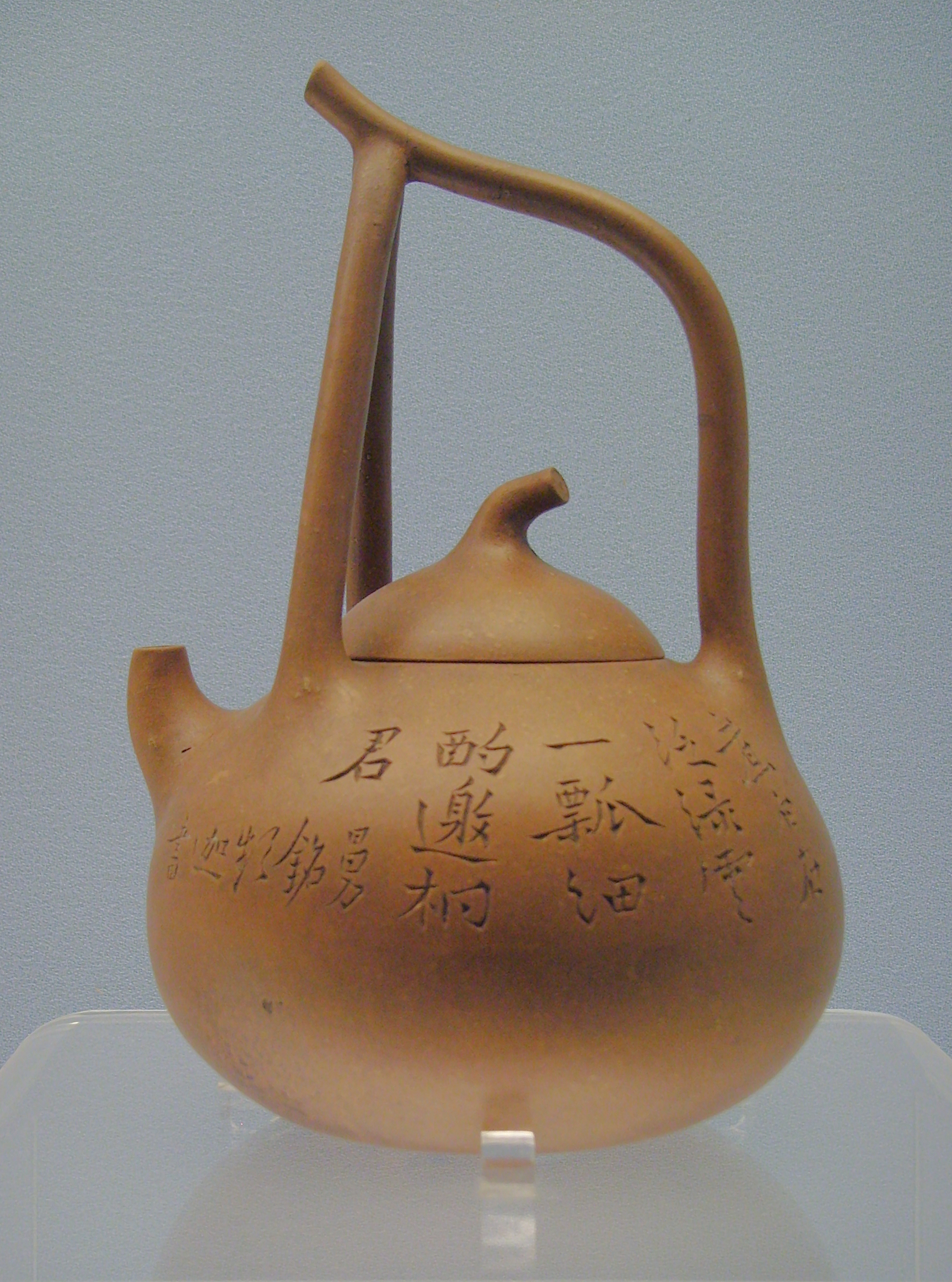 Shanghai Museum, Shanghai, P. R. of China: Teapot with a looped handle and "Man Sheng" Mark; Yixing ware, about 1900.